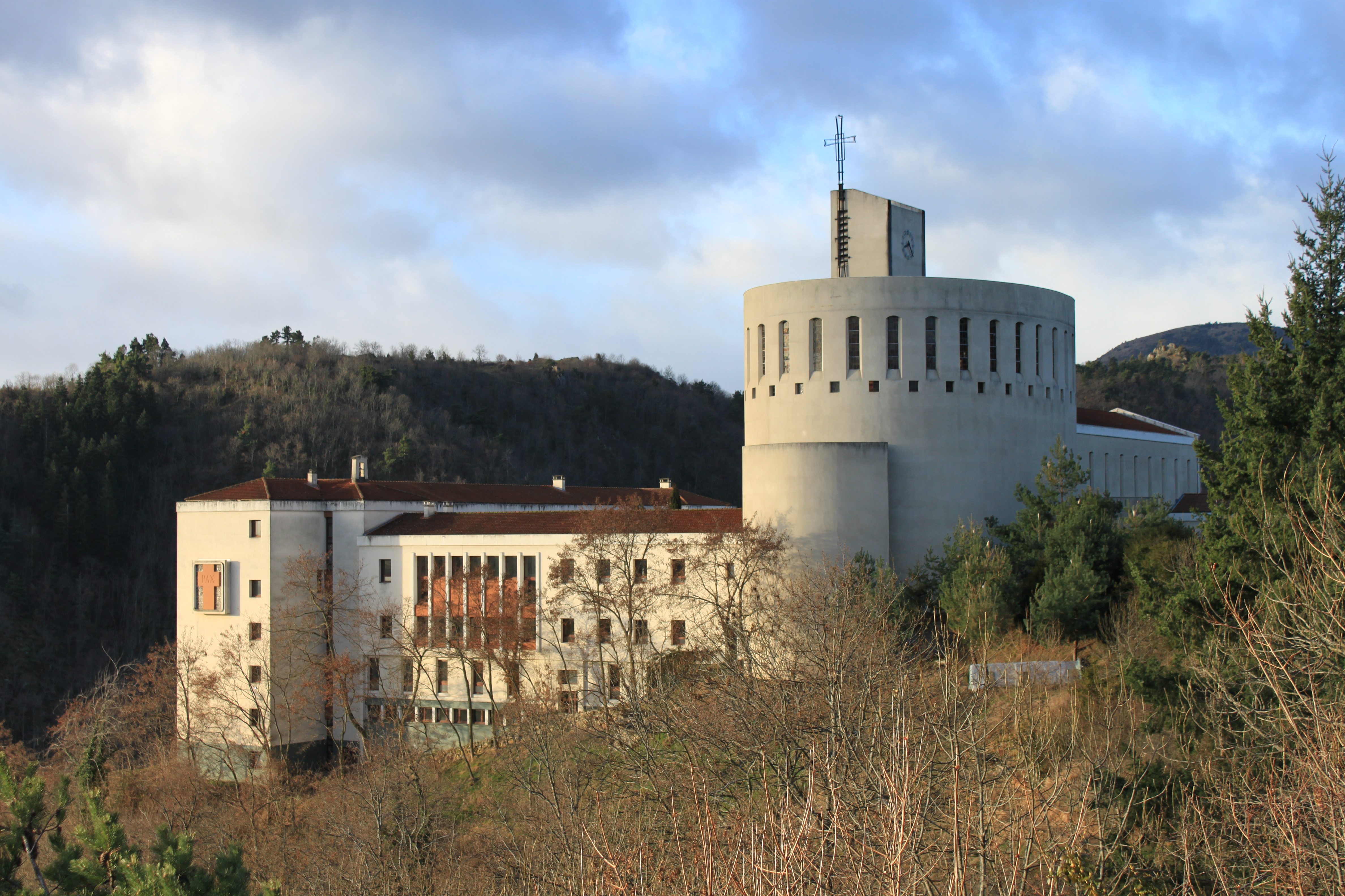 View of French Abbey Notre-Dame de Randol in Massif Central near Clermont-Ferrand.